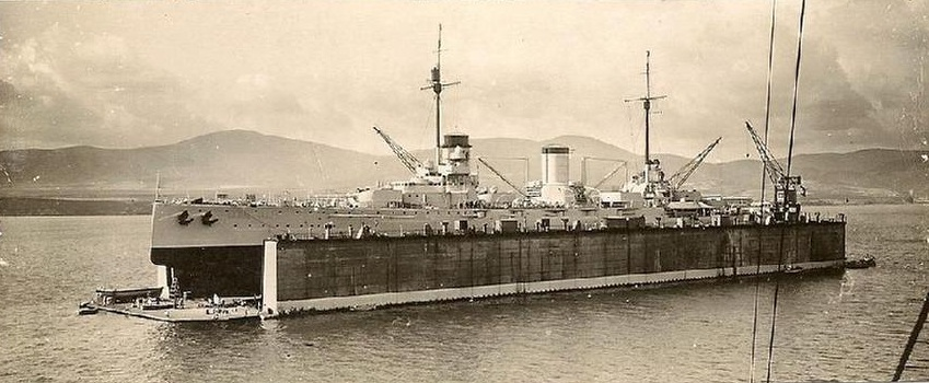 Yavuz Sultan Selim in a floating drydock at Gölcük. c. 1928.